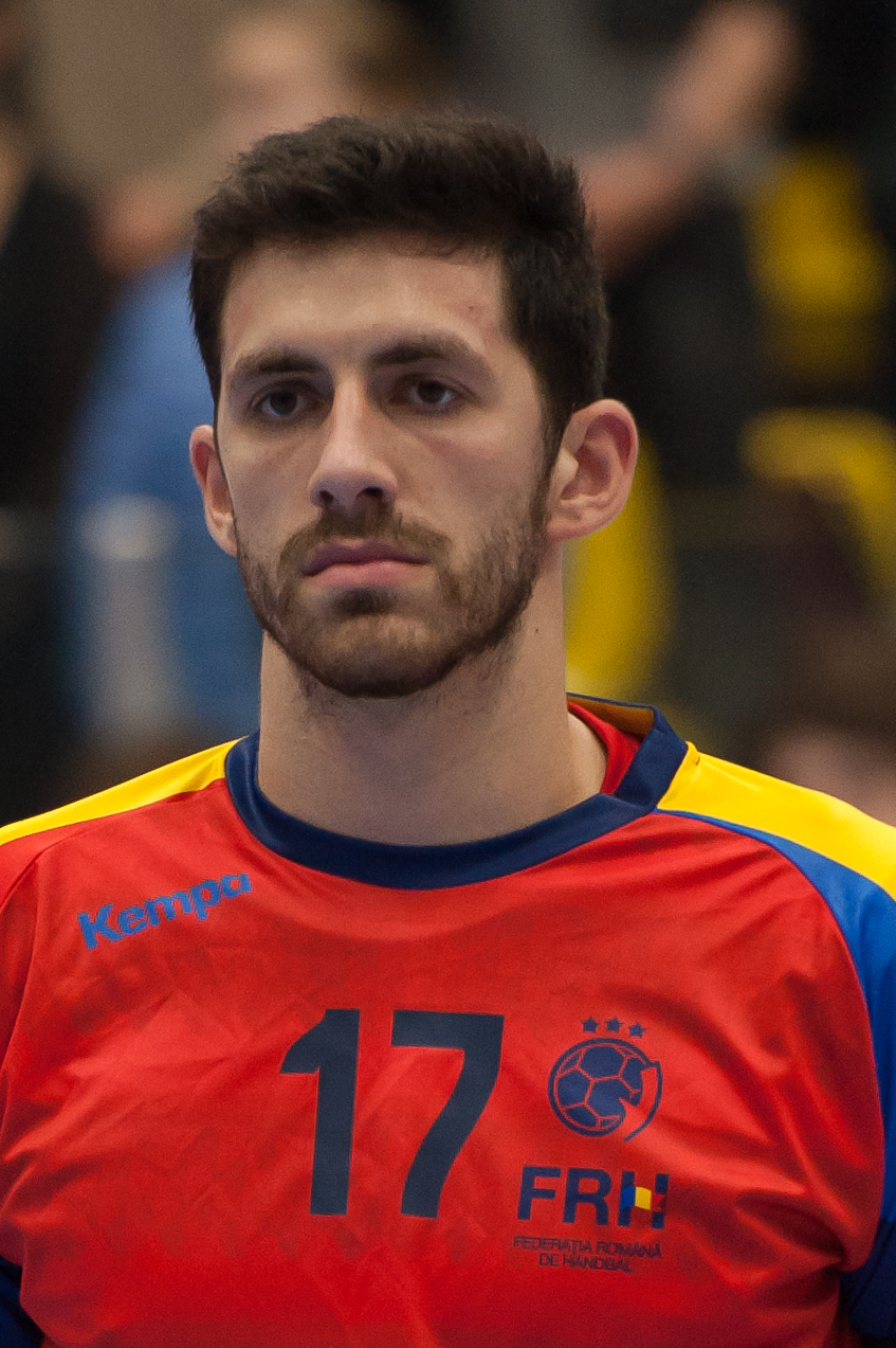 2017 Men's World Championship Qualification Europe Round 1, Austria vg. Romania, Maria Enzersdorf, Lower Austria, 2015-11-04